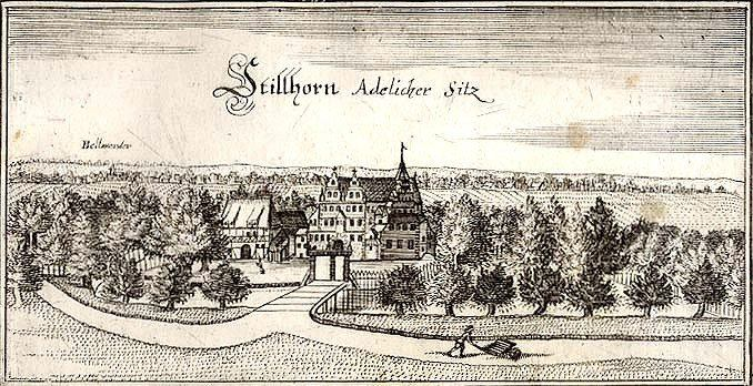 Stillhorn Castle in Hamburg-Wilhelmsburg, built around 1600 as a castle in renaissance style, torn down in the beginning of the 18th century. Copper engraving by Matthäus Merian, 1645.